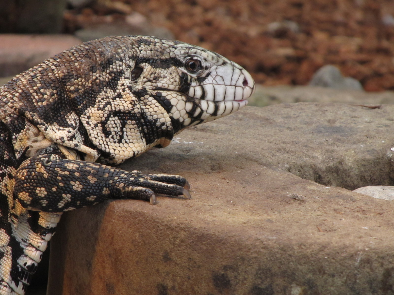 Berkenhof 's Tropical Zoo